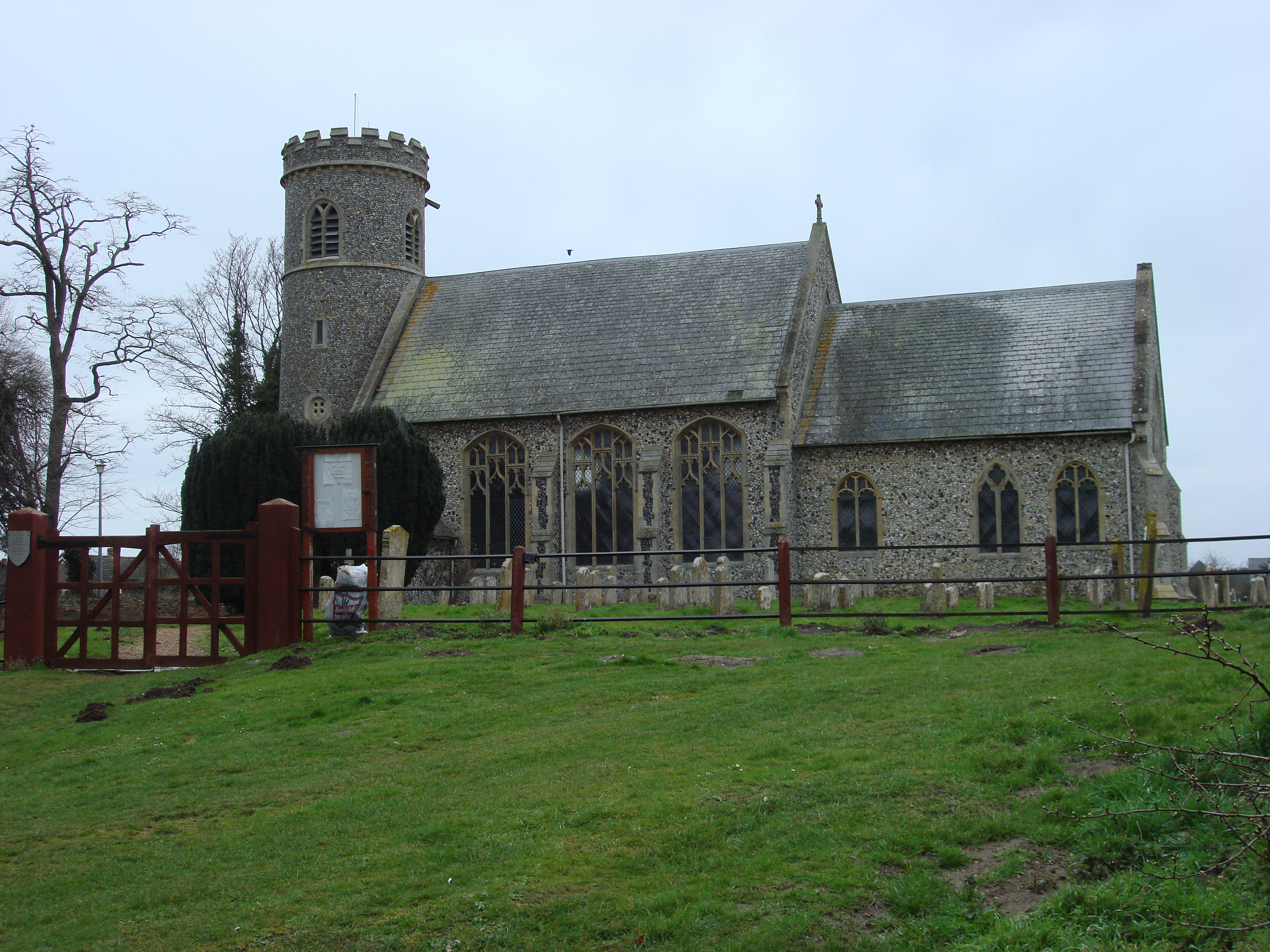 Weeting, St. Mary, Norfolk, Great Britain